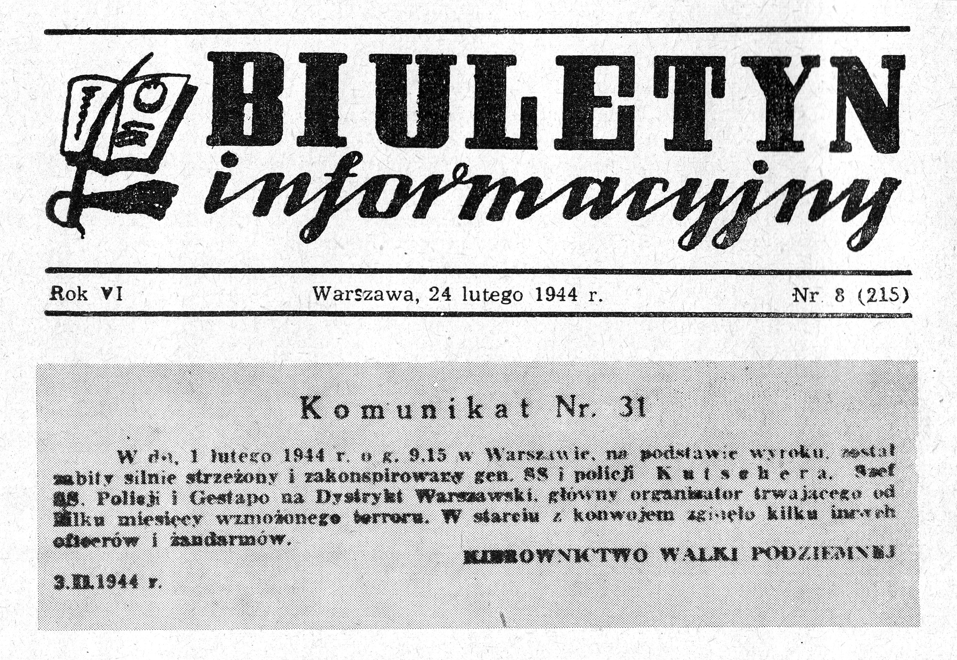 Biuletyn Informacyjny dated 24th February 1944